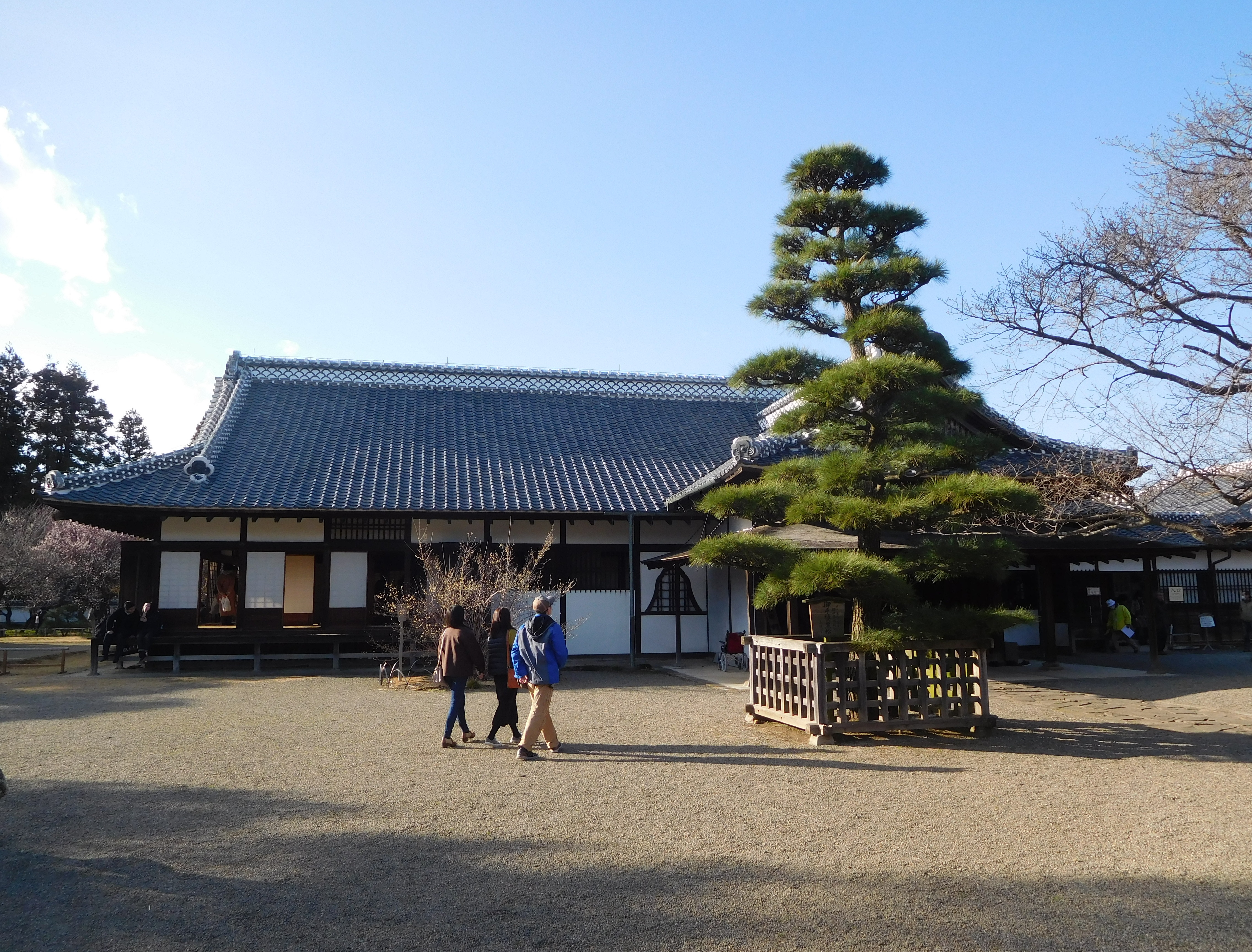 This is the main building of Kodokan in Mito, Ibaraki, Japan.